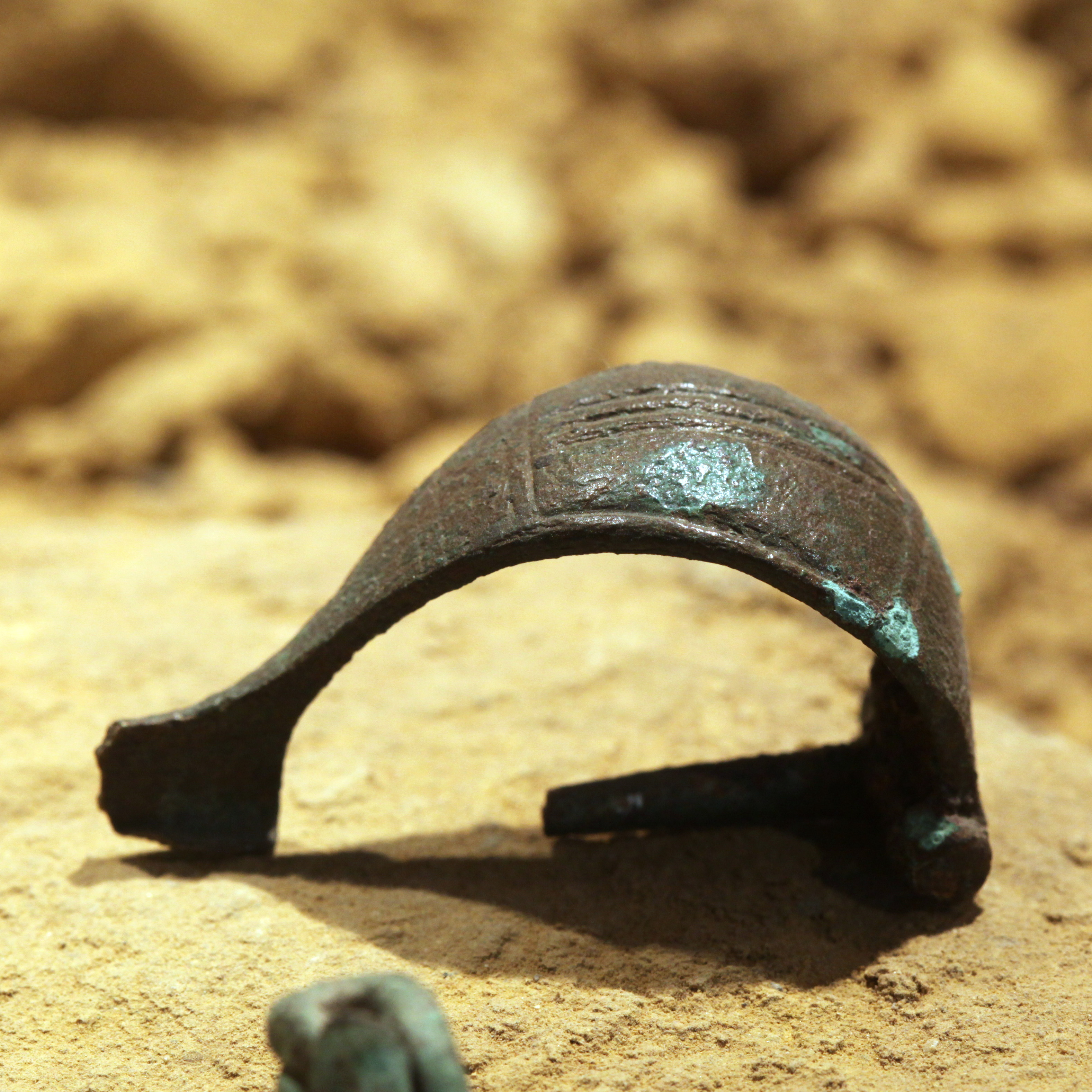 Brooch. On display at Vidy Roman Museum, Lausanne, Switzerland.